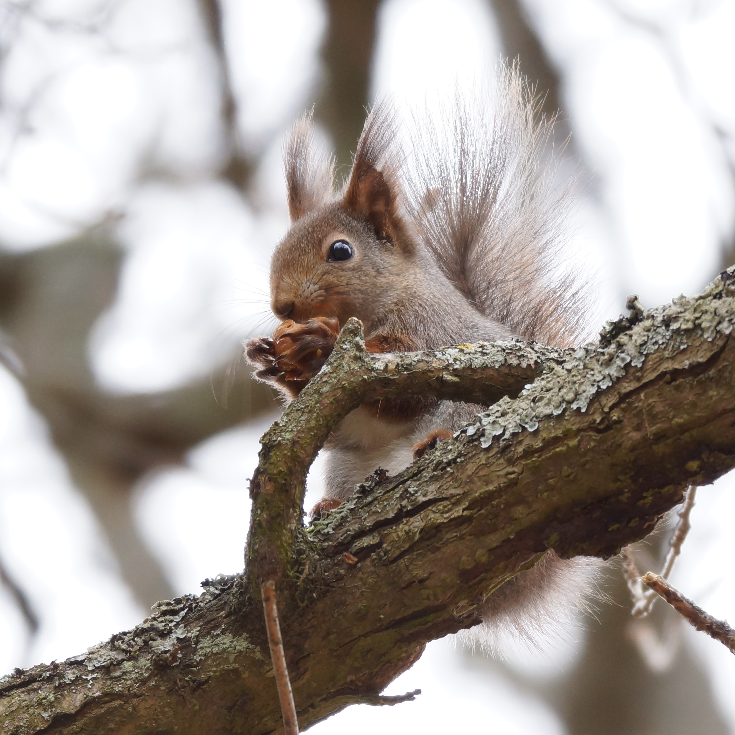 Red squirrel photographed near Isbladskärret on Djurgården, Stockholm.